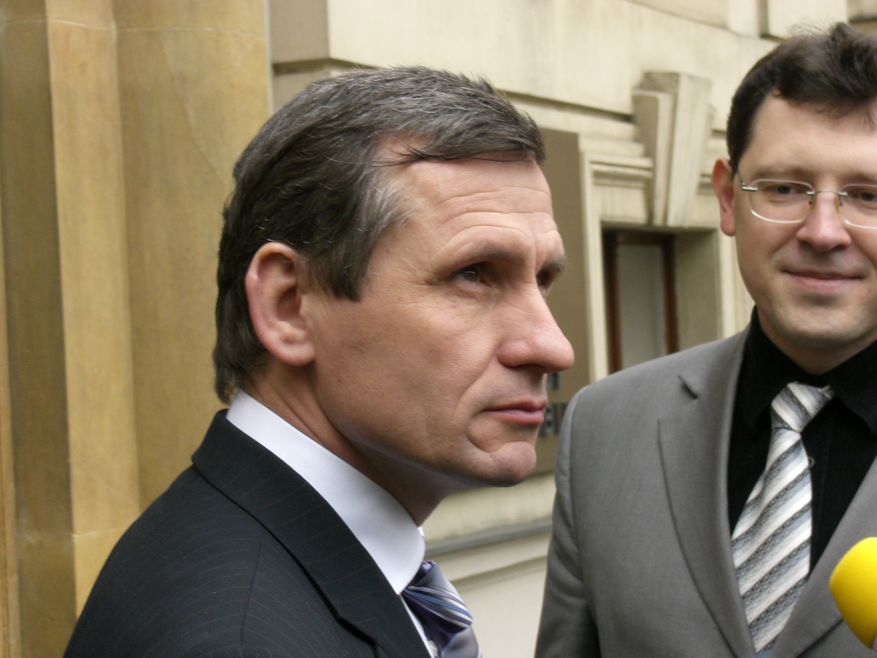 Jiří Čunek member of the czech goverment before session, Czech Republic.